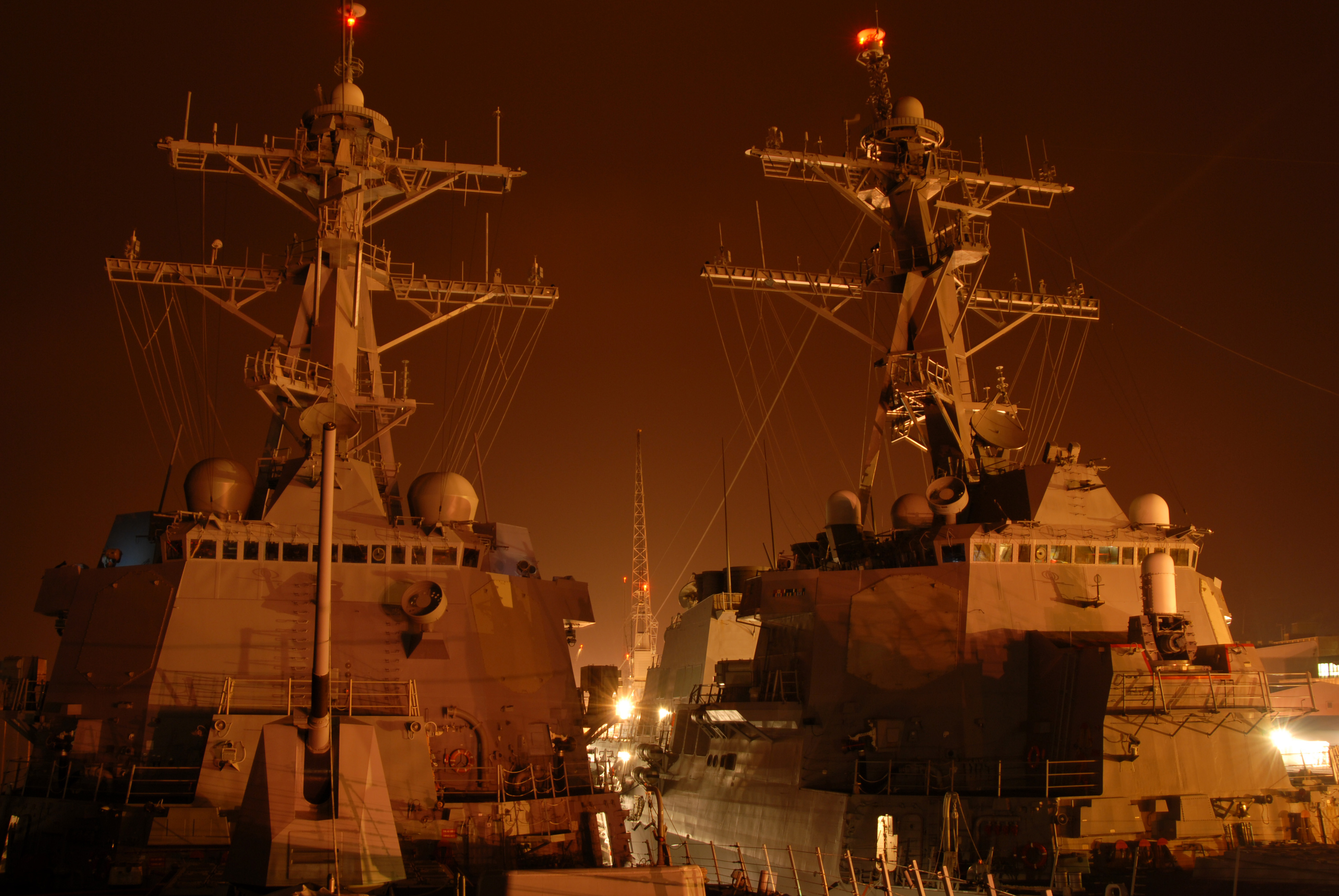 070419-N-5681S-042 FASLANE, Scotland (April 19, 2007) – Guided missile destroyers USS Bainbridge (DDG 96) and USS Laboon (DDG 58) are in port for liberty. American and European ships are in Faslane to prepare for Neptune Warrior, a ten-day course to certify ships for NATO deployments. The Neptune Warrior course is designed to increase interoperability among NATO coalition forces in a maritime combat environment.